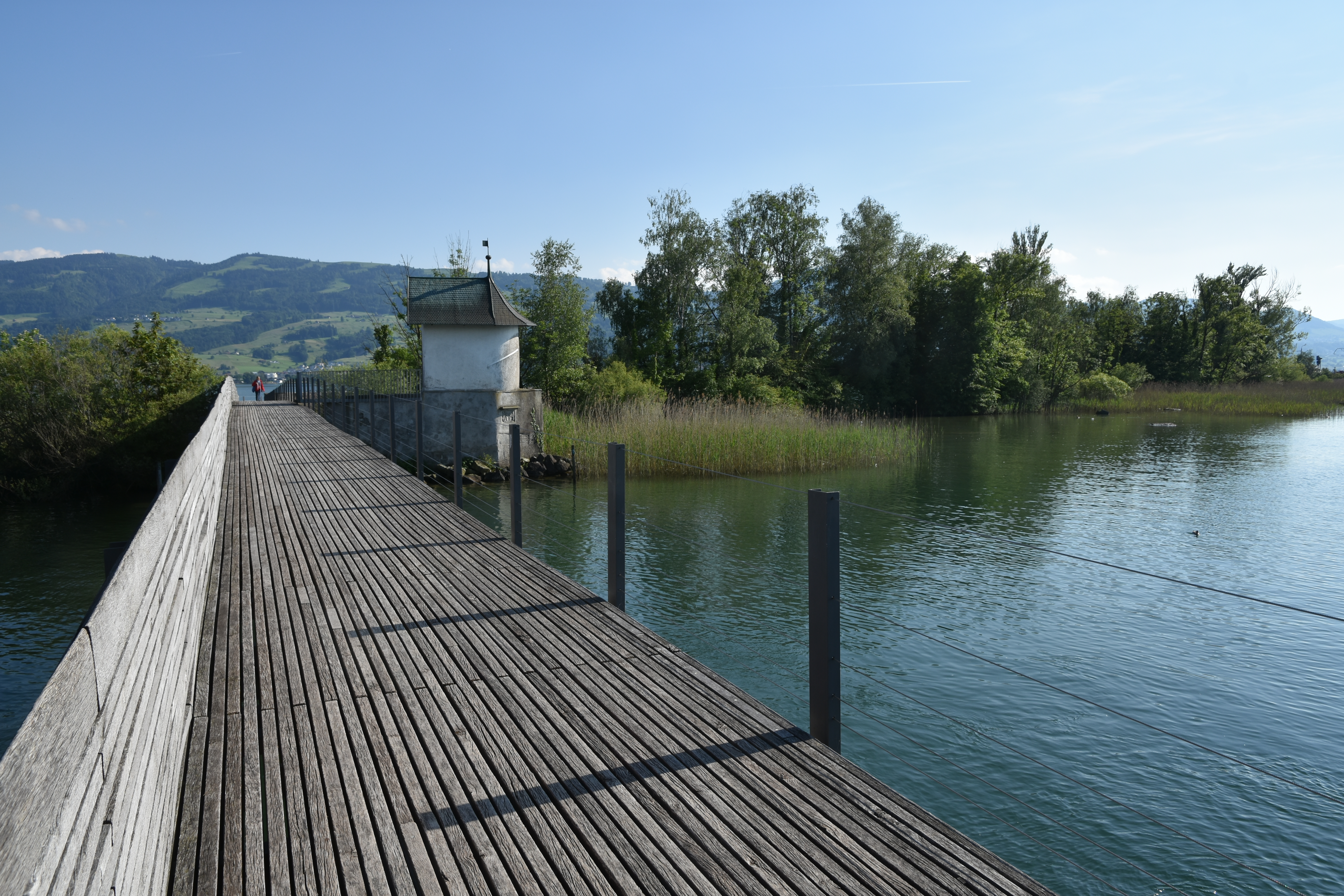 Zürichsee at Rapperswil (Switzerland) : Heilig Hüsli as seen from Rapperswil towards Holzbrücke crossing Obersee (upper Lake Zurich) between Rapperswil and Hurden at the so-called Seedamm area.